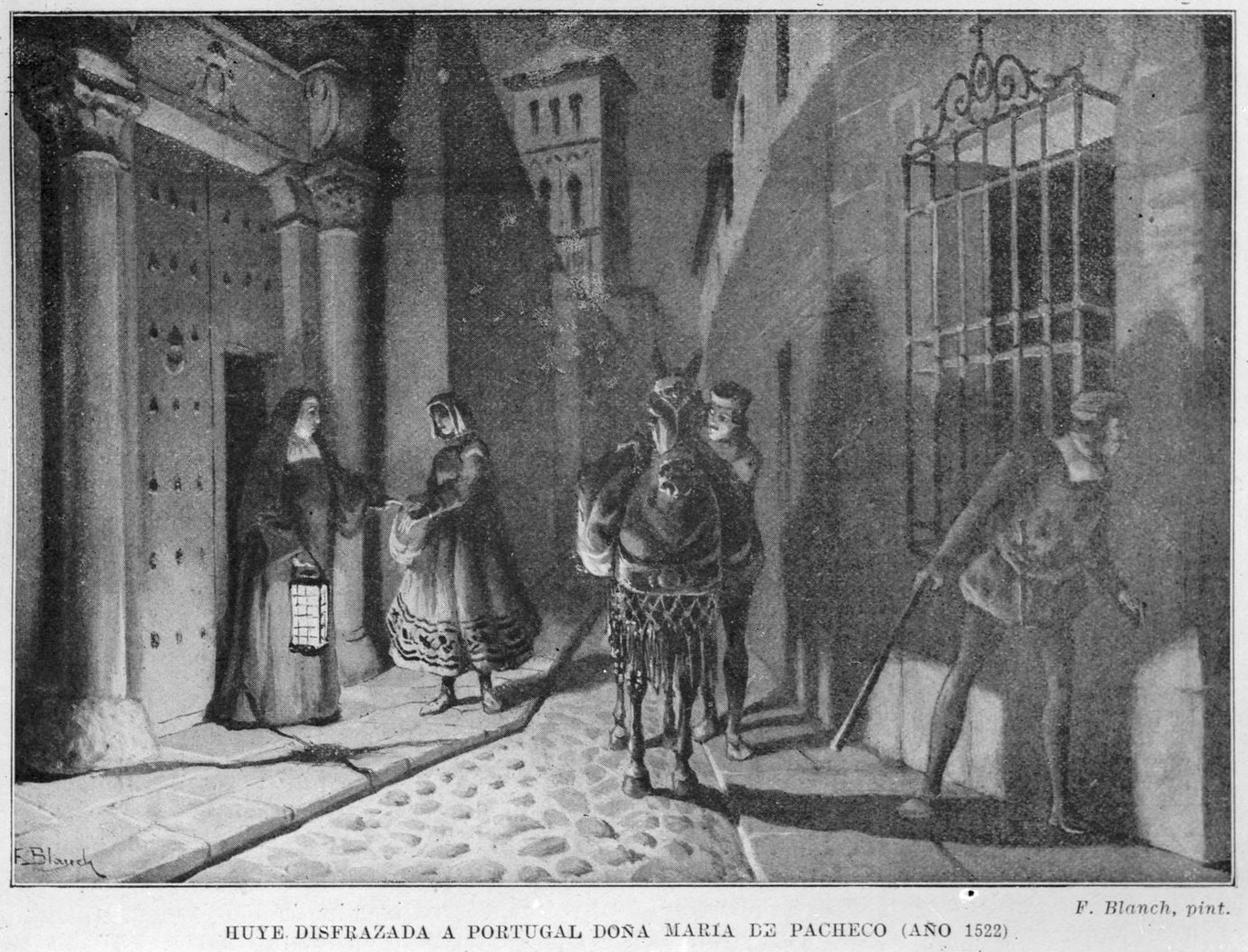 Doña Maria de Pacheco, in disguise, is exhiled in Portugal, in 1522